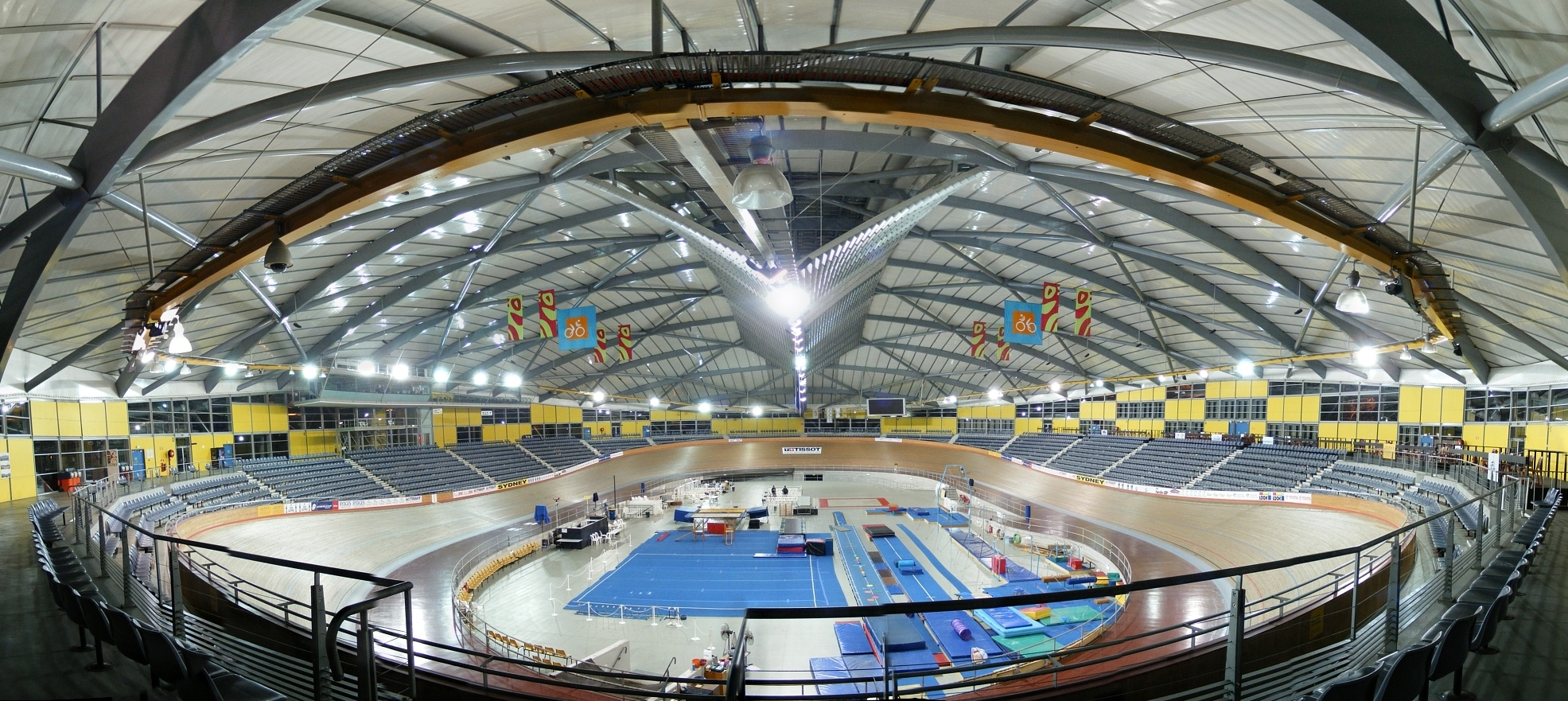 Dunc Grey Velodrome. This is a 32 photo stitch. The photo is of reasonable quality, you can see a few bad joins, but apart from that it's not bad for a 31-32 photo Join that has been slightly cropped. I could have included more of the roof but the joins showed to much in it.Adam.J.W.C. 00:31, 4 March 2008 (UTC)